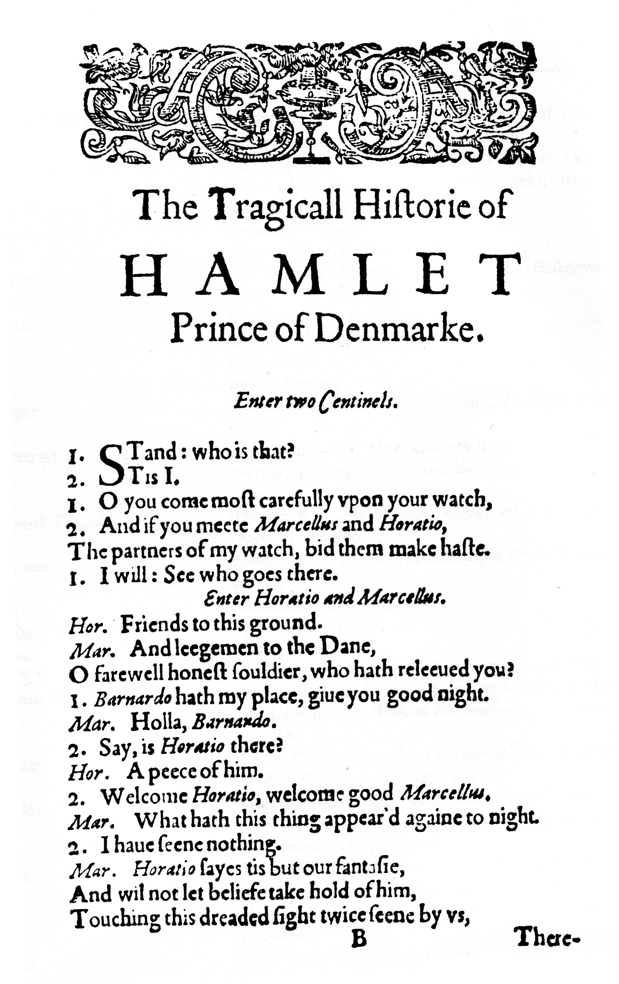 The first page from the 1603 "bad quarto" version of William Shakespeare's Hamlet